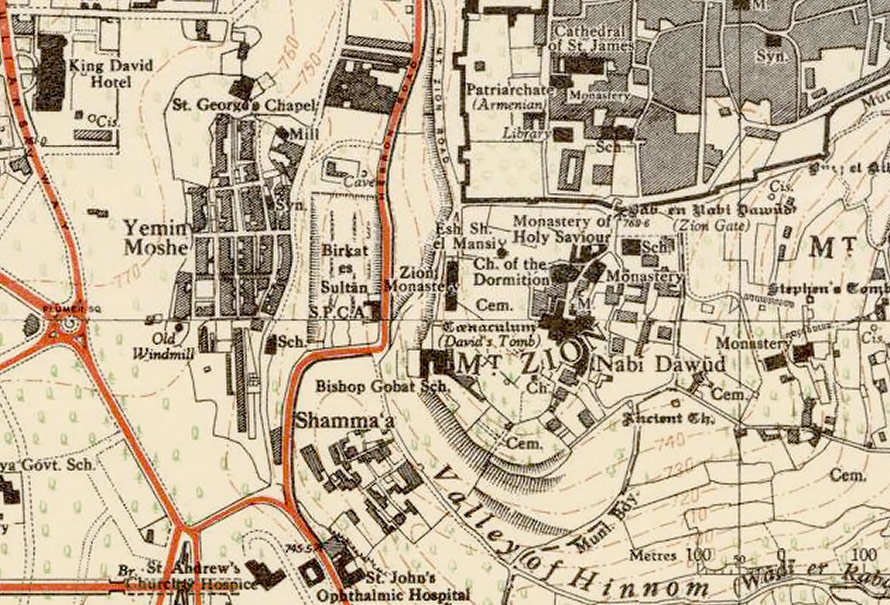 Mount Zion region of Jerusalem in 1946.Legend: Ch=church, M=mosque, Syn=synagogue, Sch=school, Cem=Cemetery, Cis=cistern, Munl Bdy=municipal boundary